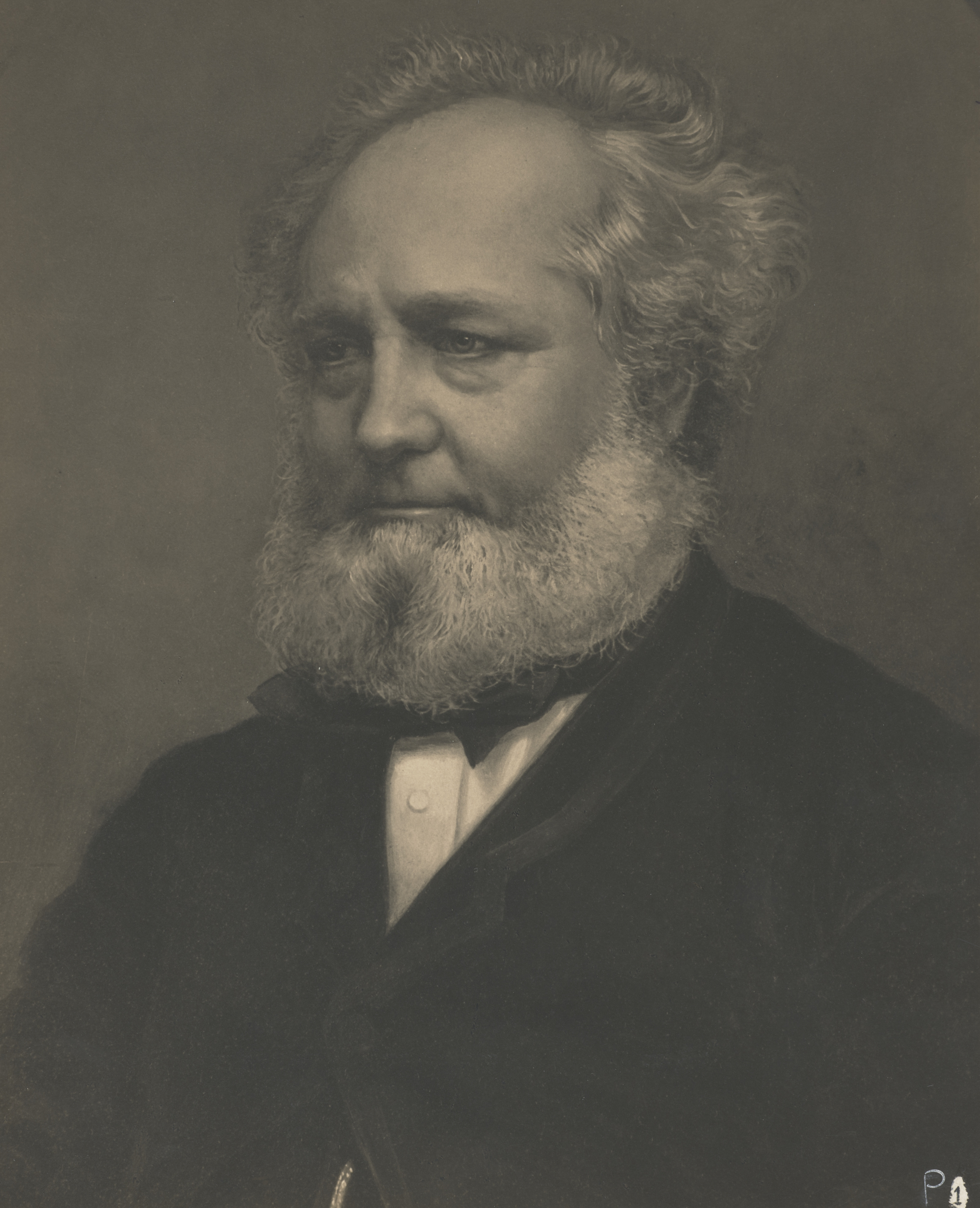 Format: Photoprint Notes: John Fairfax (1804-1877) was the founder of an Australian newspaper publishing dynasty. In 1841 he bought the Sydney Herald, renaming it the Sydney Monring Herald in 1842. The SMH remains one of the major New South Wales newspapers to this day. Find more detailed information about this photograph: .au/item/itemDetailPaged.aspx?itemID=239950 Search for more great images in the State Library's collections: .au/search/SimpleSearch.aspx From the collection of the State Library of New South Wales